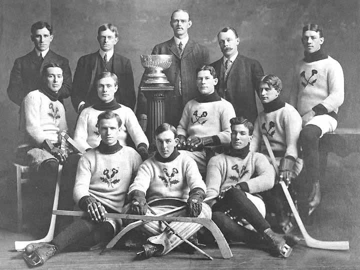 The Kenora Thistles, winners of the Stanley Cup in January, 1907, posing for a photo with the Cup. Back row: Russell Phillips, J. F. McGillvary (secretary), James Link (trainer), Fred Hudson (manager) Middle row: Roxy Beaudro, Tom Hooper, Tommy Phillips, Billy McGimsie, Joe Hall Front row: Si Griffis, Eddie Giroux, Art Ross